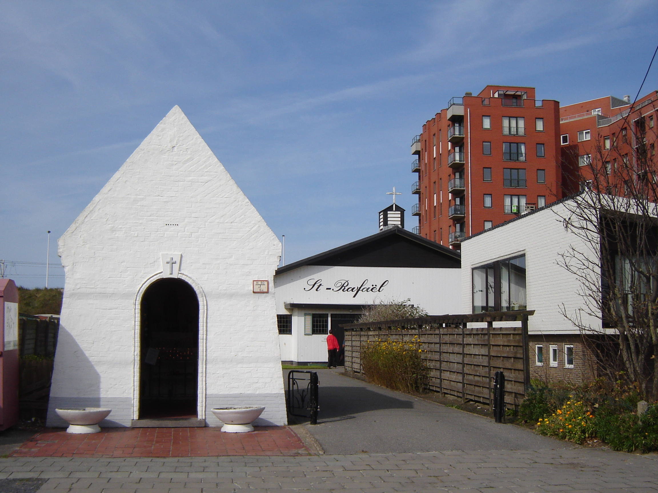 Church of Saint Raphael and chapel of Our Lady in Raversijde. Raversijde, Oostende, West Flanders, Belgium